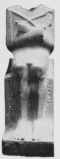 Statuette of pharaoh Sekhemre-Shedtawy Sobekemsaf (II). Fine grained dark green basalt, purchased by Petrie in Thebes and probably originated from here. H. 11,5 inches to the neck. Reign of Sobekemsaf II, 17th Dynasty, Second Intermediate Period.